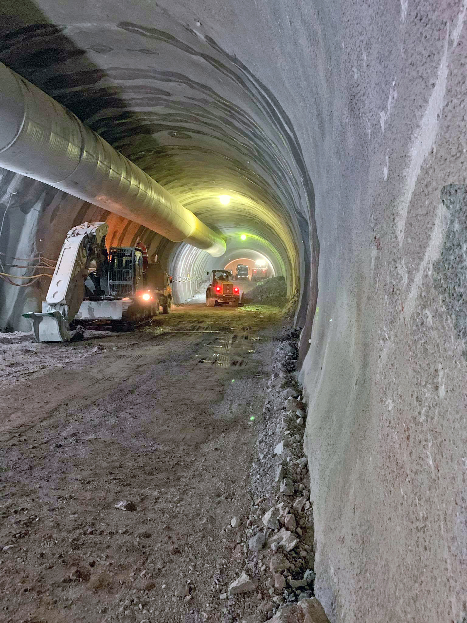 NATM Drilling inside the east-tube of the Karawanks motorway tunnel seen from Austria heading towards Slovenia in November 2018